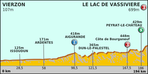 Paris-Nice 2012 Profile stage